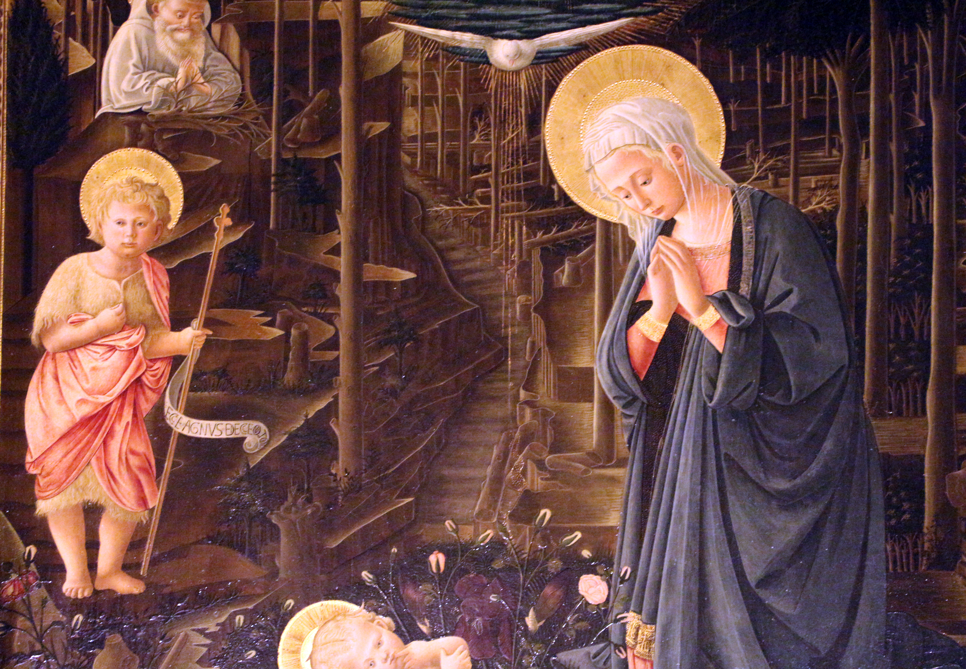 Palazzo Medici-Riccardi (Florence) - Cappella dei Magi